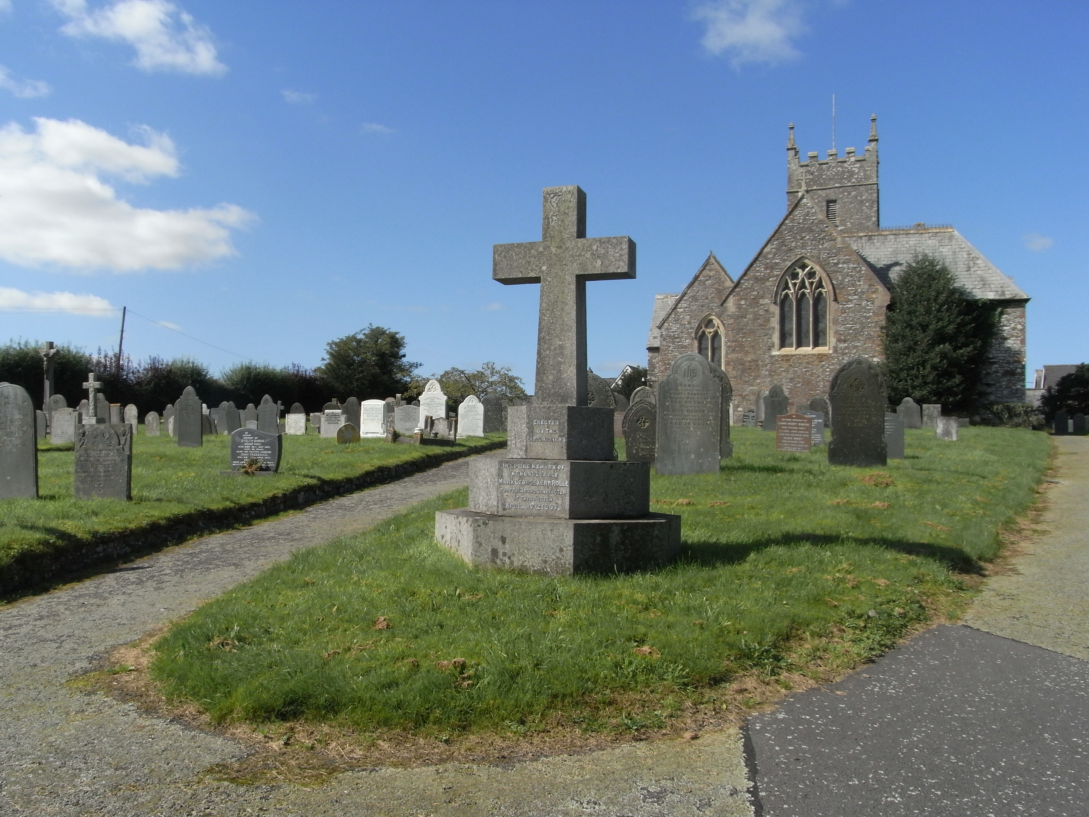 Memorial Cross to Hon. Mark Rolle (1835-1907) of Stevenstone. East end of churchyard of St Giles's Church, St Giles-in-the-Wood, Devon, viewed from the lych-gate. Inscription: "Erected by the parishioners in loving memory of the Honourable Mark George Kerr Rolle the friend and benefactor of this parish. April 27th 1907"